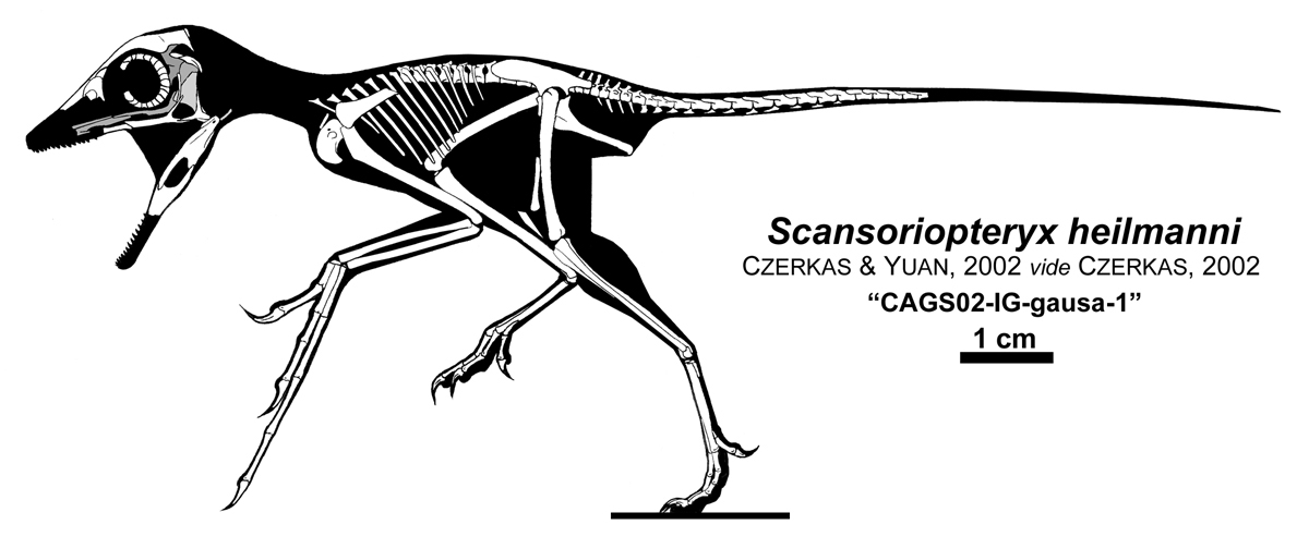 Skeletal reconstruction of Scansoriopteryx heilmanni.